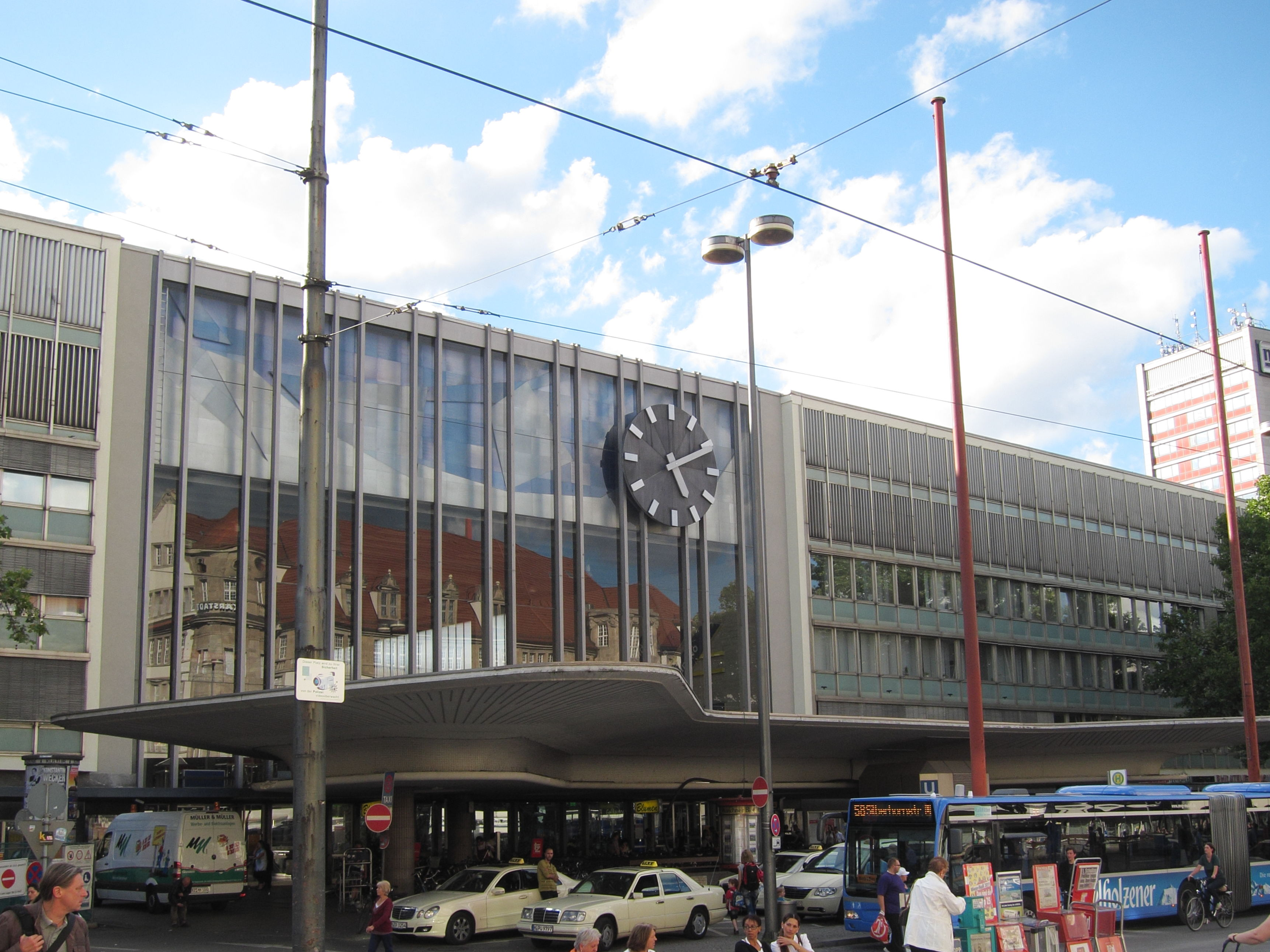 Munich Central Station, front facade